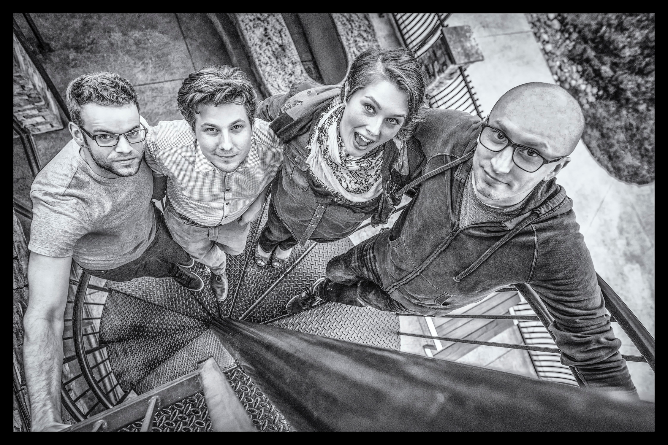 Image of the band Bello Spark